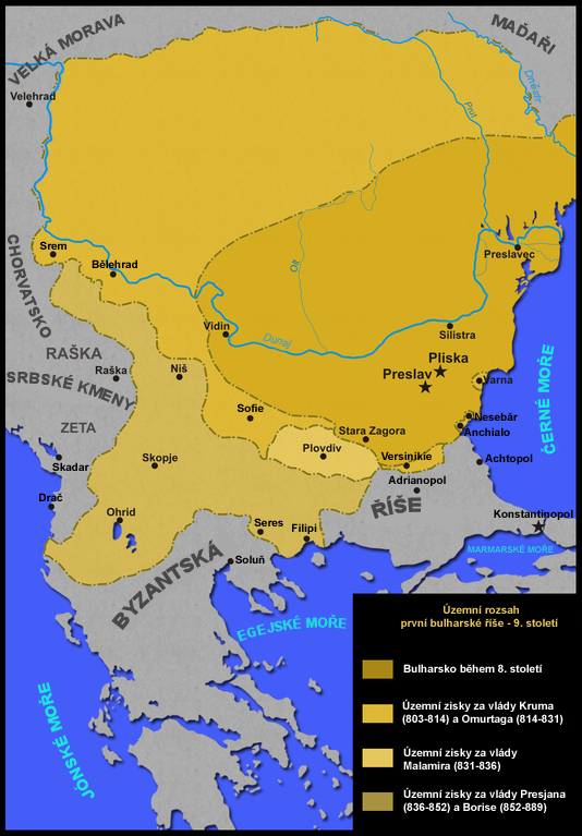 Territory of the First Bulgarian Empire - 9 th century (Czech)